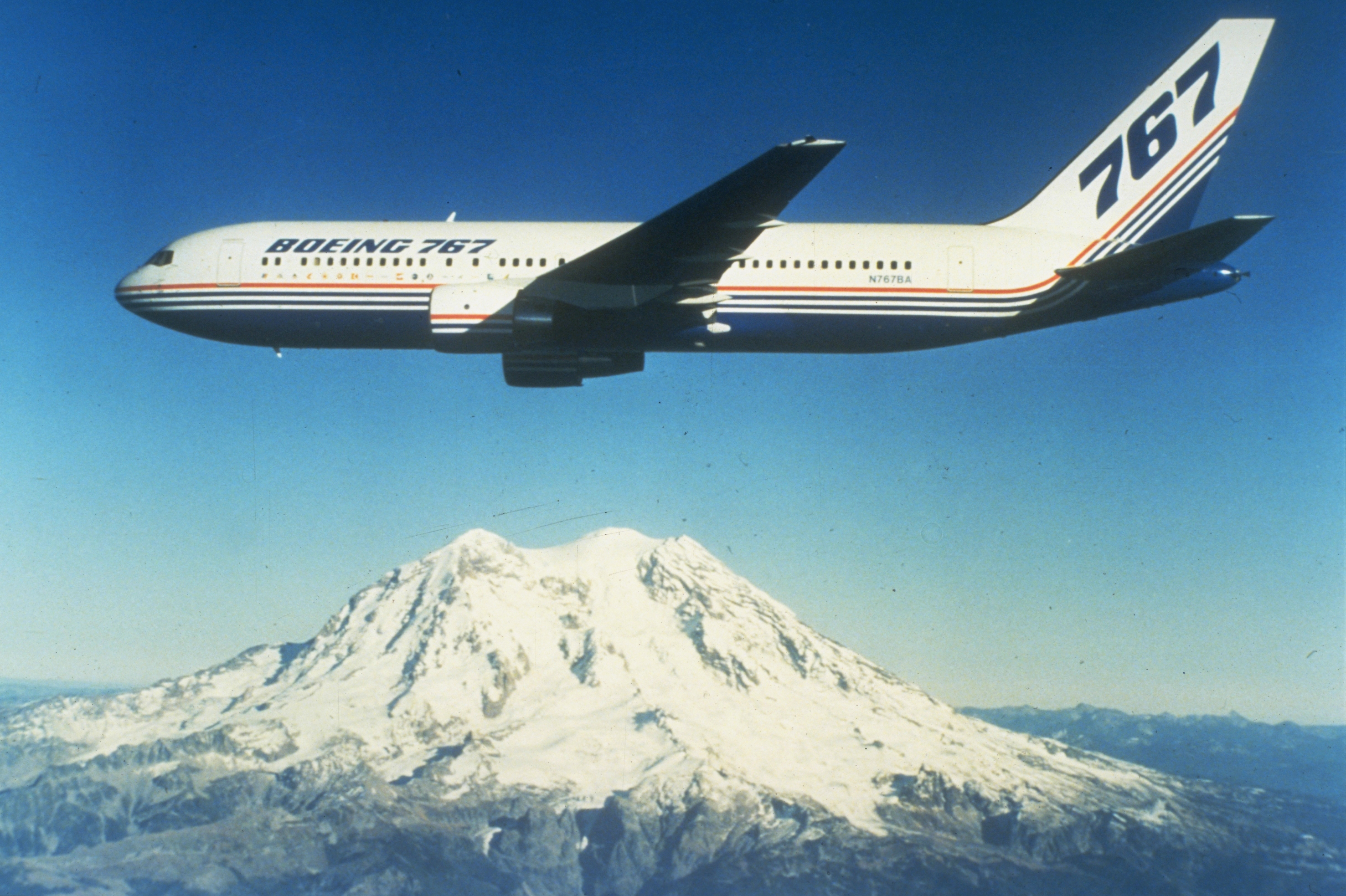 N767BA, the first 767 built (the prototype), in flight over Mount Rainier, circa 1980s